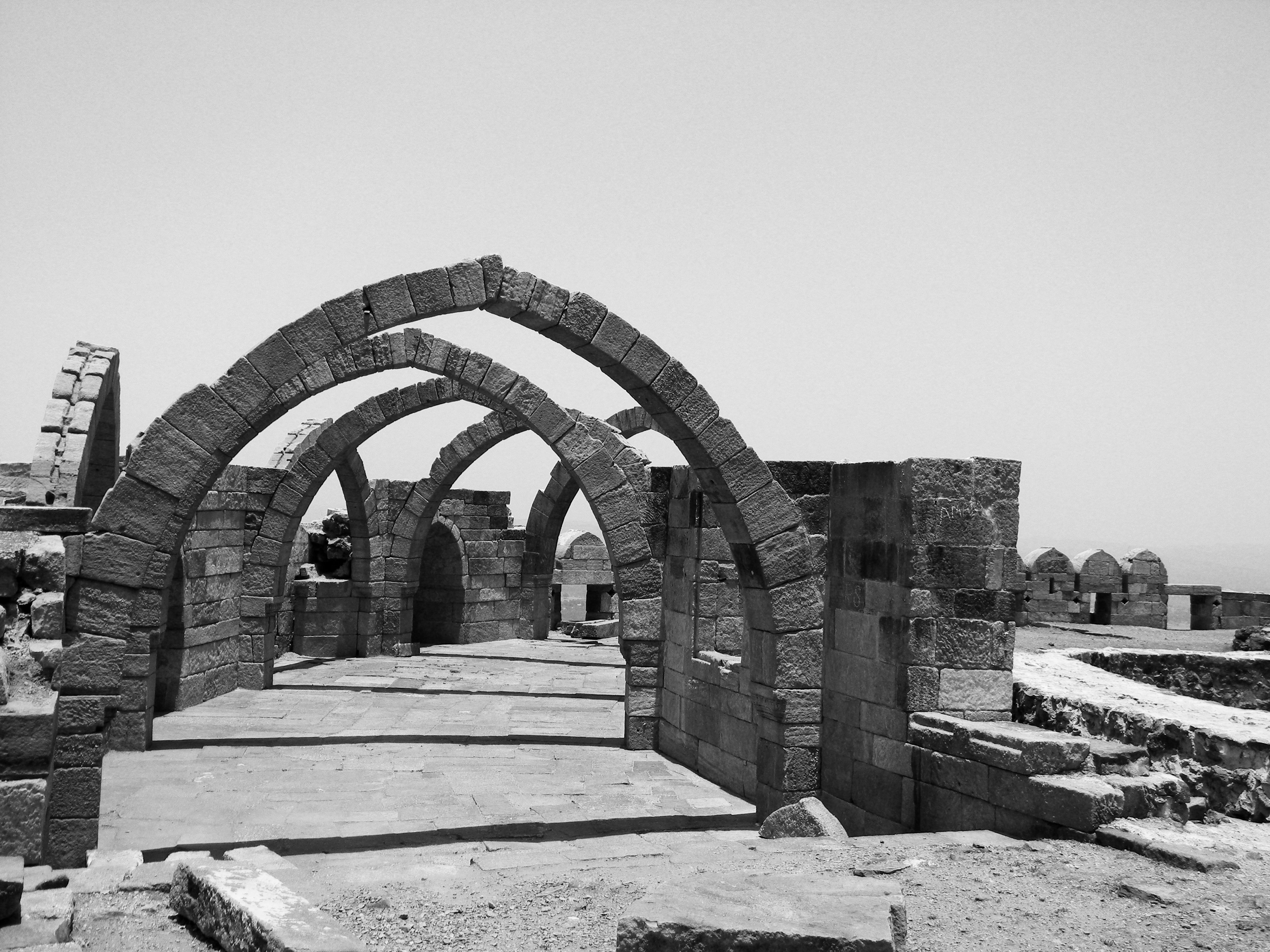 Saat Kaman (7 arches), Champaner, Gujarat, India